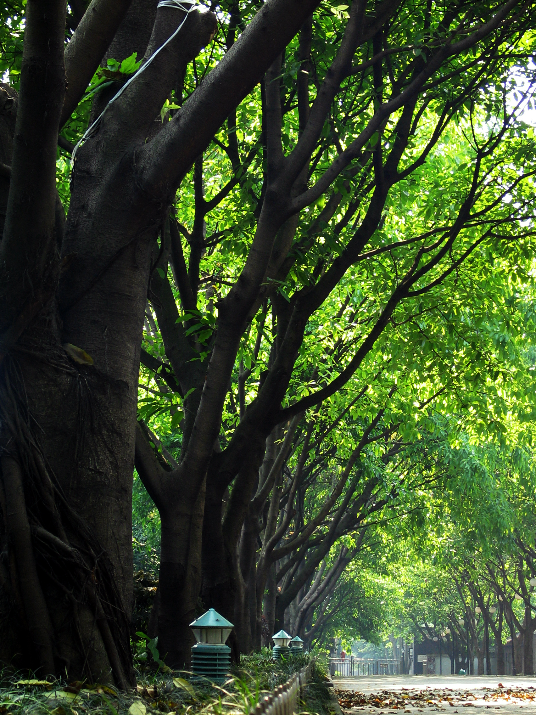 this is photo of Sanyou Road in Nankai Middle School.